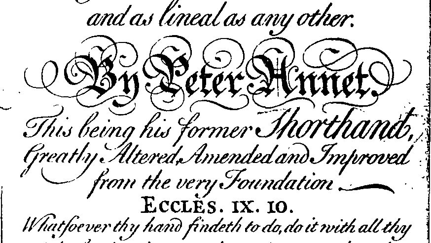 Fleuron from book: Expeditious penmanship: or, Shorthand improved. Containing the Necessary Rules Of this art; Illustrated with a Multitude of Examples; which render it to common Capacities plain and easy to Read, Write, and Remember, and as lineal as any other: By Peter Annet. This being his former Shorthand, Greatly, Altered, Amended and Improved from the very Foundation. Eccles. IX. 10. Whatsoever thy hand findeth to do, do it with all thy might, for there is no work, nor device, nor knowledge, nor wisdom in the grave, whither thou goest.